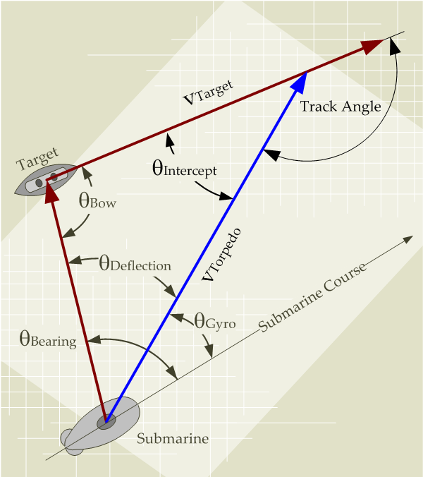 The Torpedo Fire Control Triangle